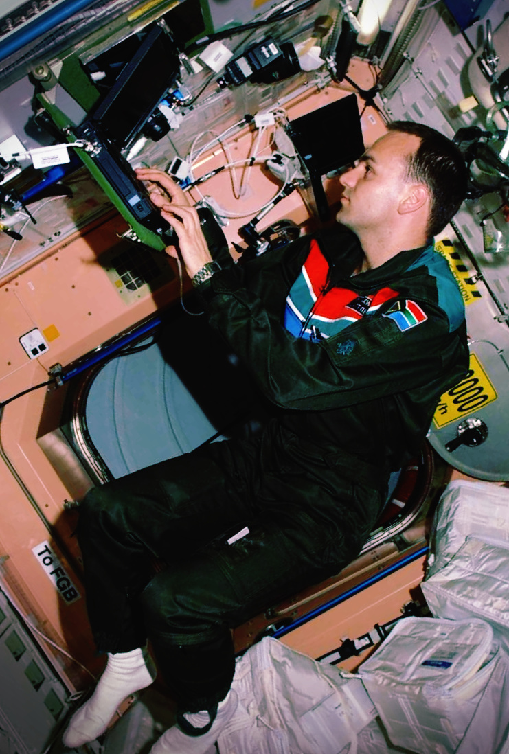 Mark Shuttleworth using an IBM Thinkpad laptop aboard the International Space Station (ISS), having travelled aboard the Soyuz TM-34 Expedition 4 taxi flight.